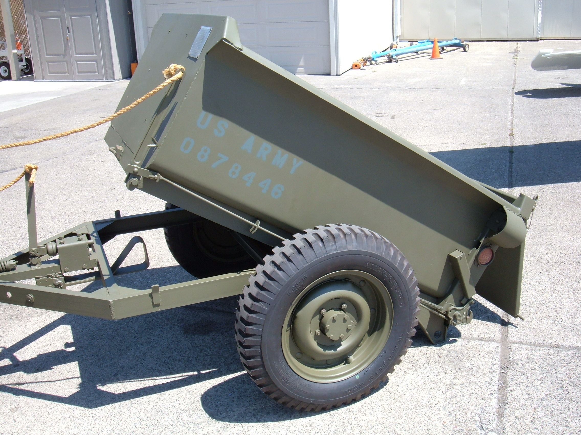 A 1945 Converto Airborne Dump Trailer attached to a 1945 Willys MB Jeep owned and Restored by Matt Parry of Forestville, CA. The Converto Trailer is rare. Seen at the Wings over Wine Country 2008 air show at the Charles M. Schulz - Sonoma County Airport in Sonoma County, California. See also Image:1945 Willys jeep with trailer 1.JPG.